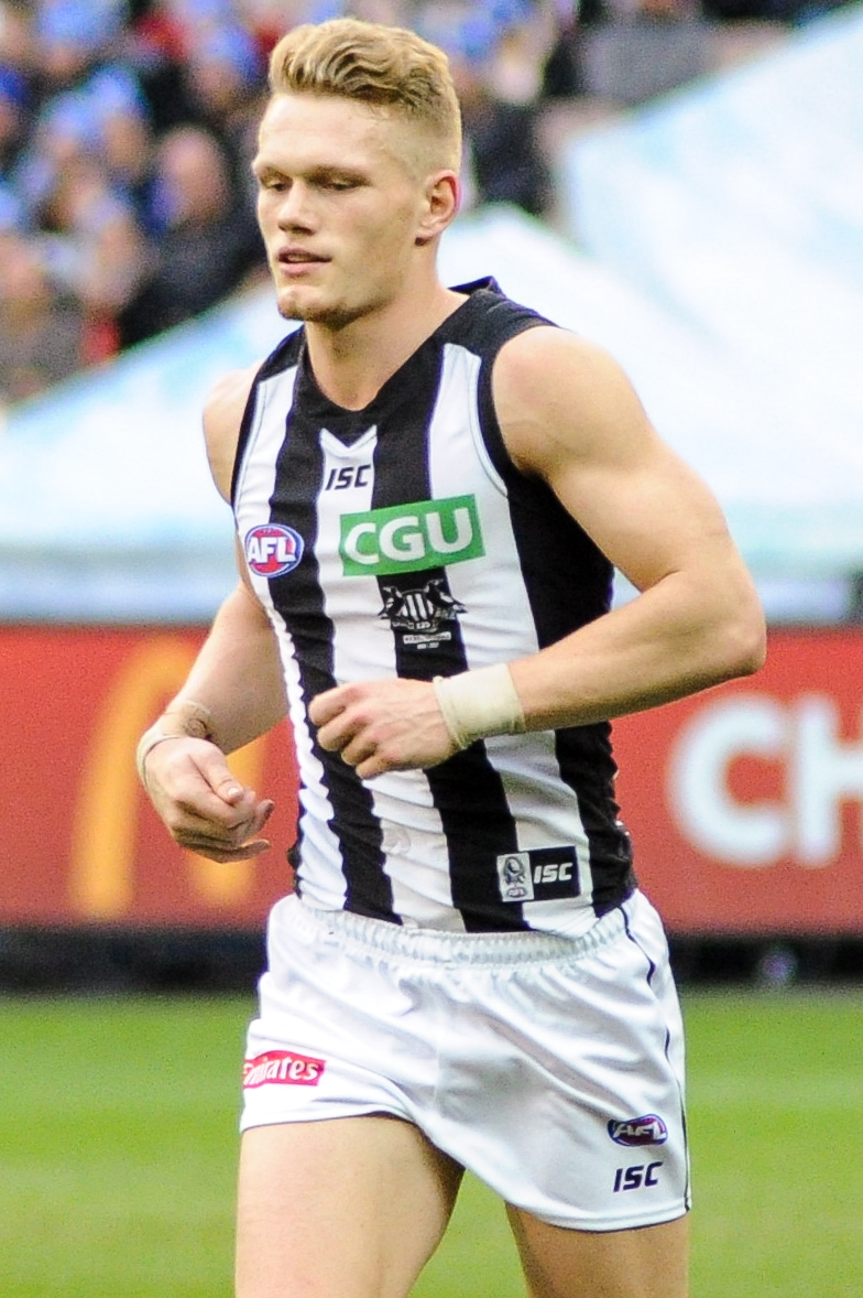 Adam Treloar during the AFL round twelve match between Melbourne and Collingwood on 12 June 2017 at the Melbourne Cricket Ground in Melbourne, Victoria.